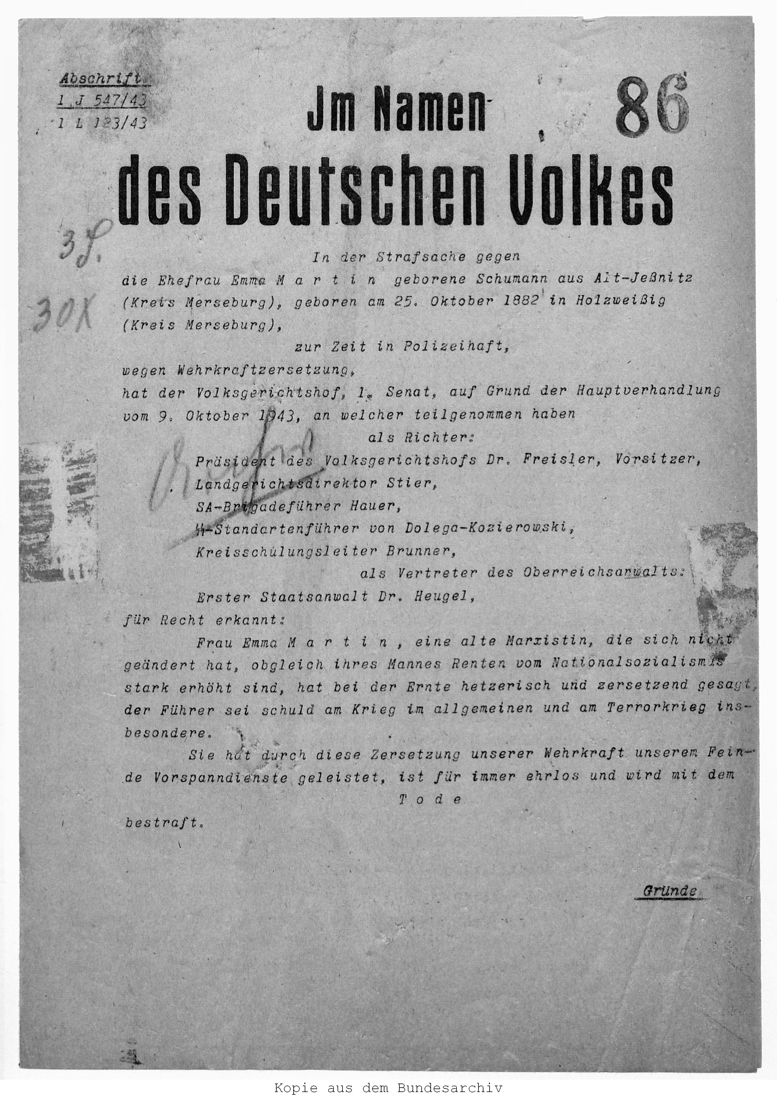 Urteil des Volksgerichtshofes